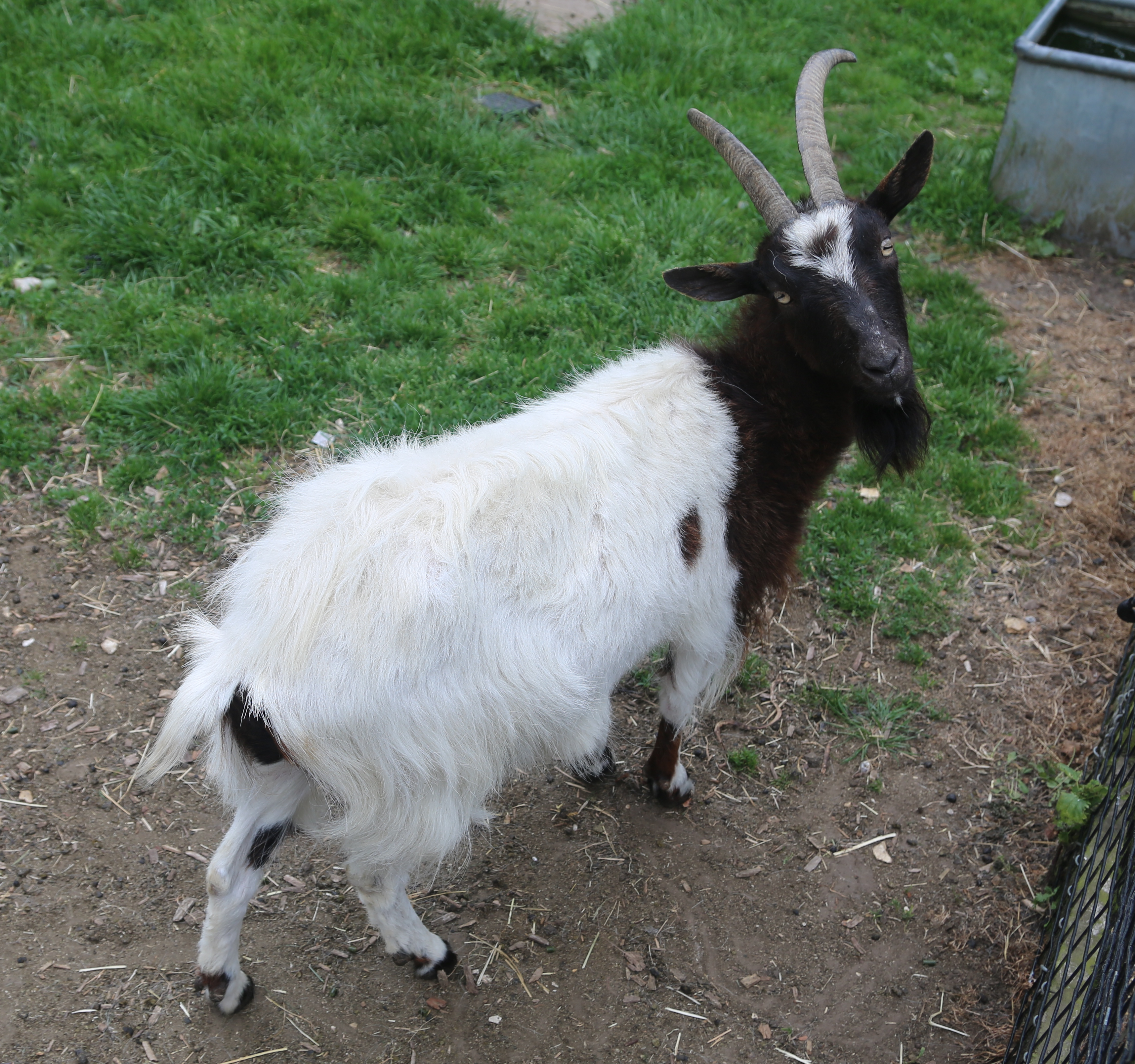 Photo of a Bagot goat at Staunton Park